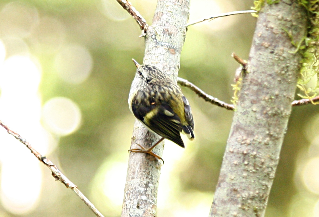 Riflemans (Acanthisitta chloris) are hard to photograph; this is the best i could do for now. they are so hyper, moving from branch to branch every second or so. New Zealand, South Ssland - 2009/2010